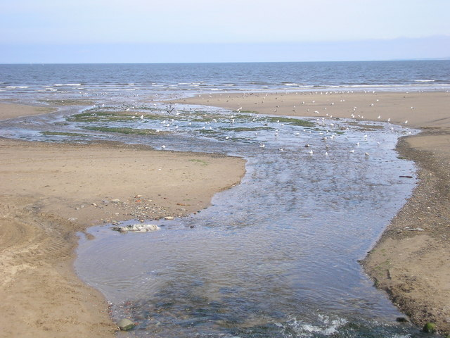 The Mouth of the Figgate Burn The view of the Figgate Burn as it reaches the sea after coming out of a culvert which takes it below the promenade at Portobello.